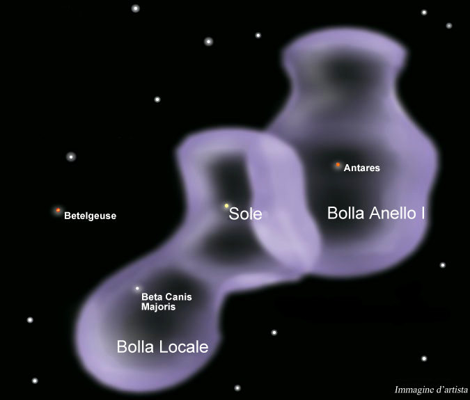 The Local Bubble. Derived from Image:Local bubble.jpg.